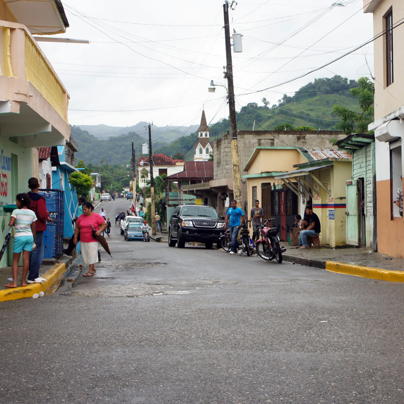 Calle Espíritu Santo